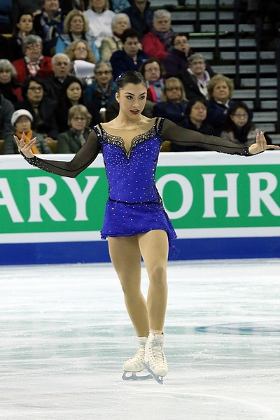 Gabrielle Daleman at the 2016 World Figure Skating Championships.